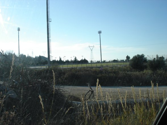 University stadium in Patras